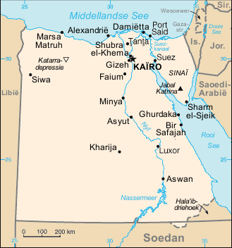 An Afrikaans map of Egypt.